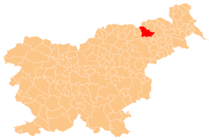 Localization of Maribor in Slovenia.